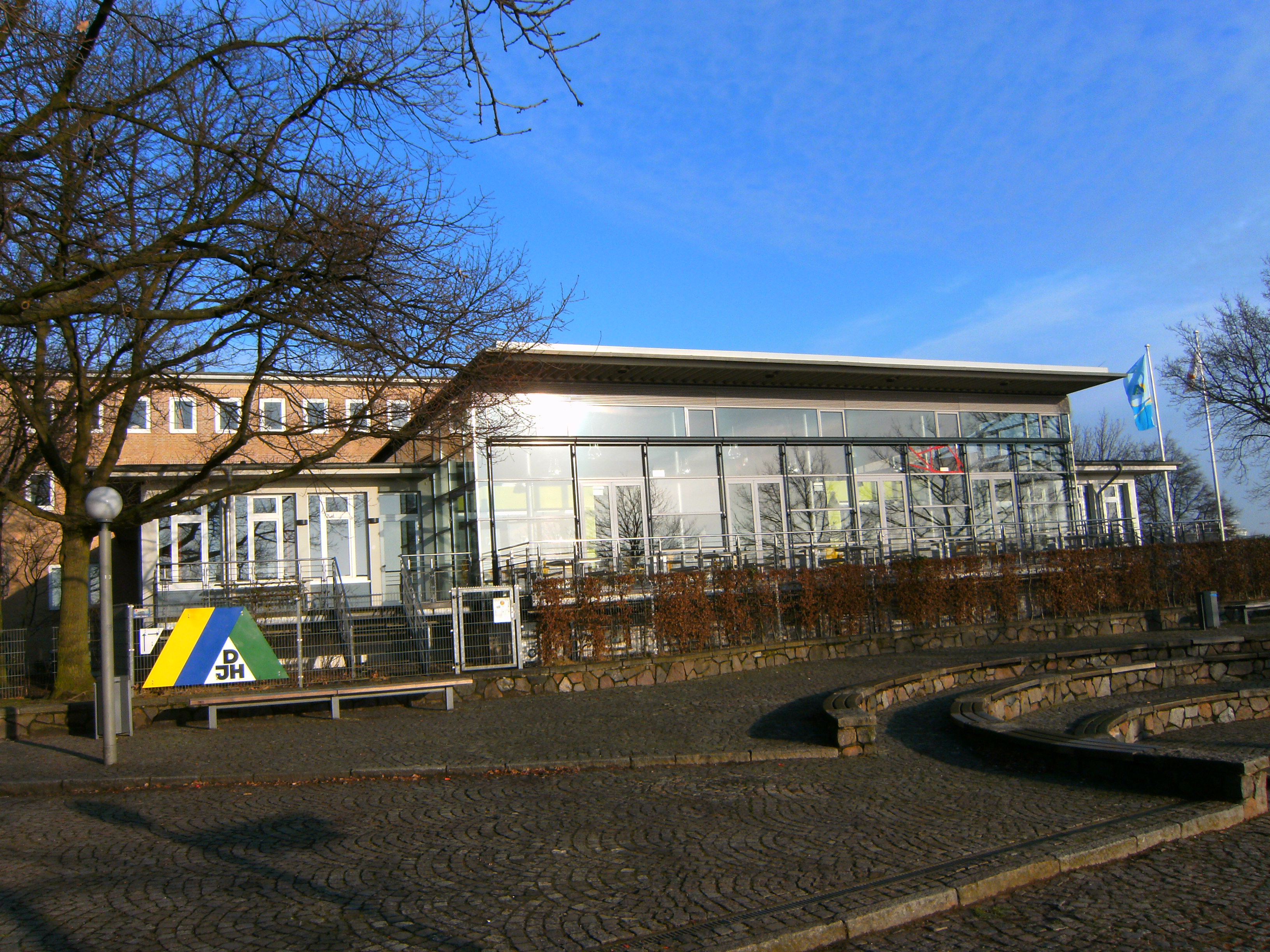 Youth hostel in Hamburg, Germany on Stintfang hill. In front a terrace accessible for everyone .